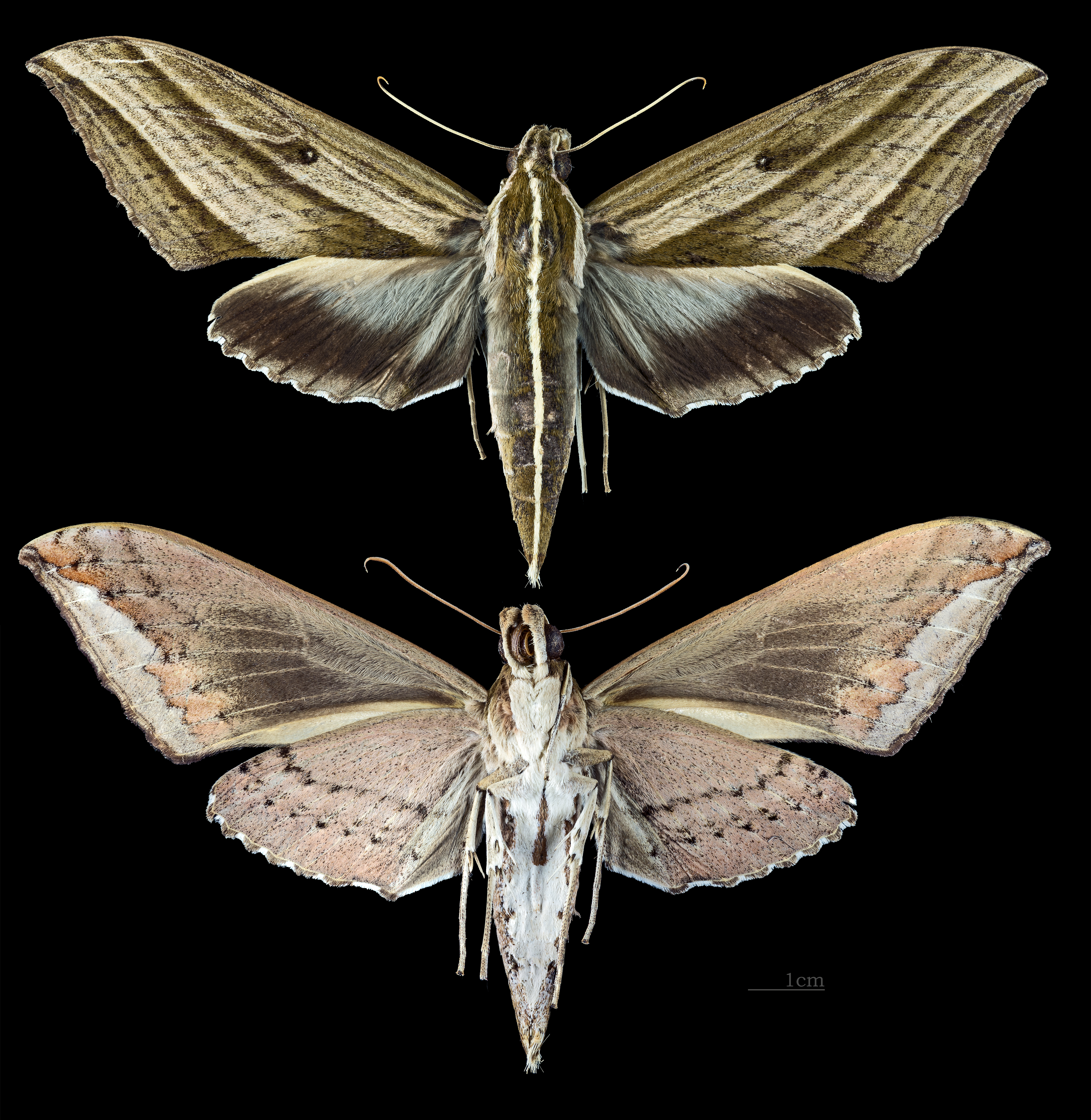 Elibia dolichus - Two views of same specimen. Collection of the Mathematician Laurent Schwartz.